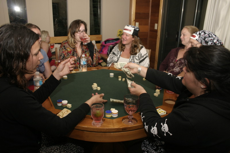 Bachelorette party